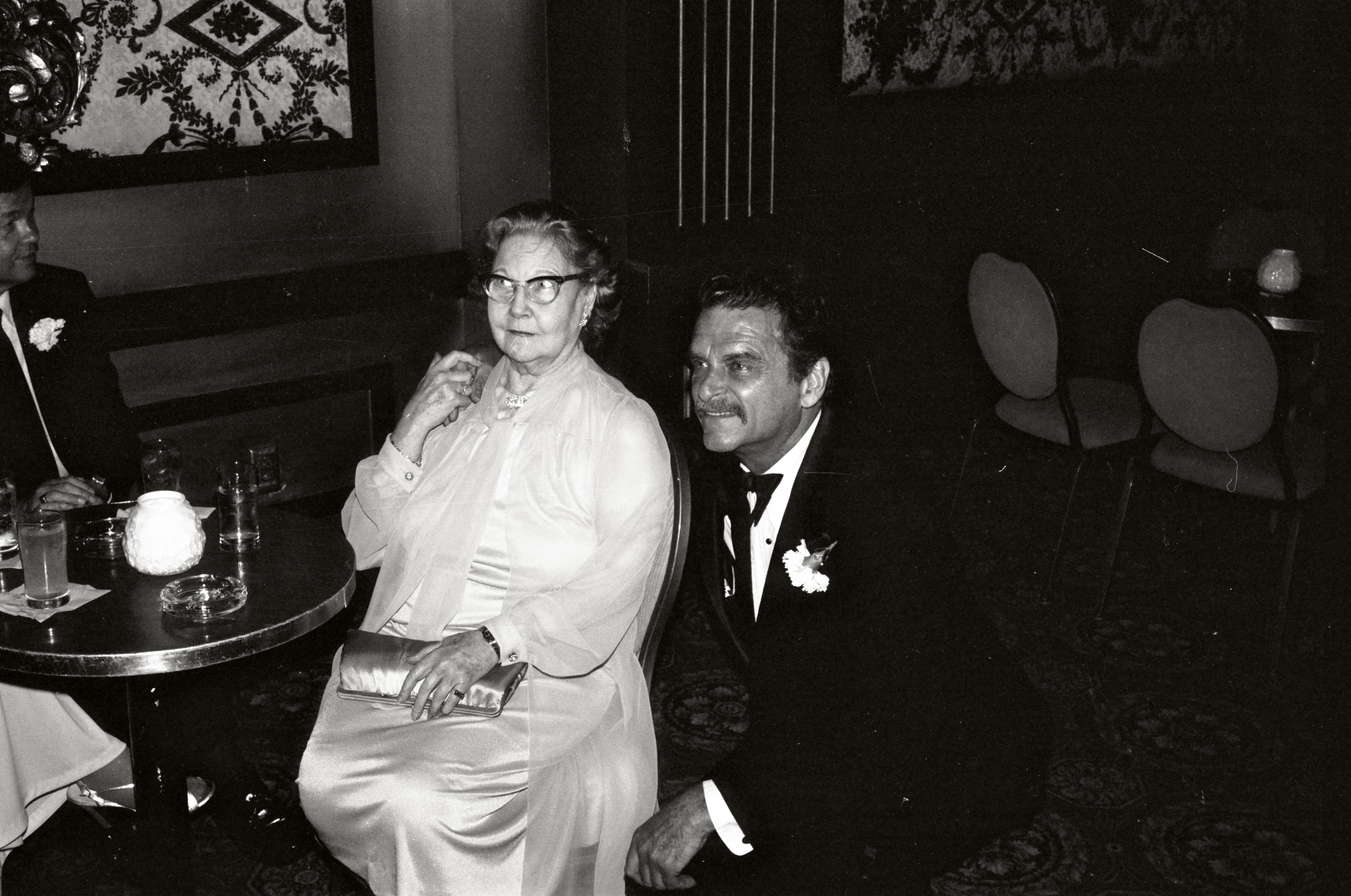 Una Merkel and Henry Brandon at the National Film Society convention, May 1979. NOTE: Permission granted to copy, publish, broadcast or post any of my photos, but please credit "photo by Alan Light" if you can. Thanks